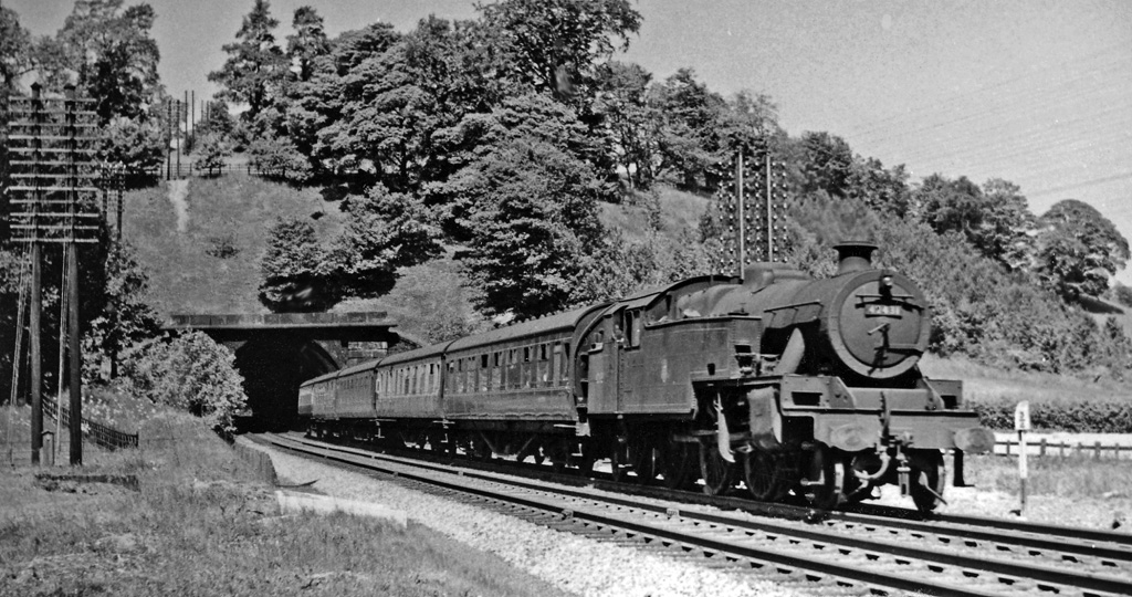 Up local train emerging from Milford Tunnel. View northward, towards Ambergate and Chesterfield; ex-Midland Derby etc. - Manchester, Sheffield etc. main line. The train is the 13.20 Darley Dale to Derby local, headed by LMS Stanier 4P 2-6-4T No. 42431